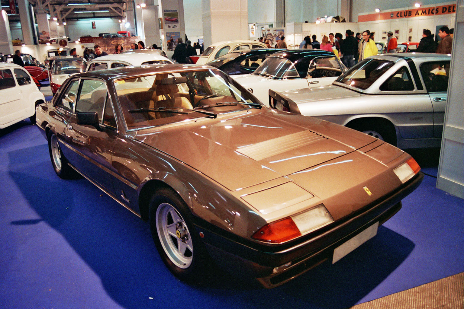 Ferrari 400 in Auto Retro expo (Barcelona).